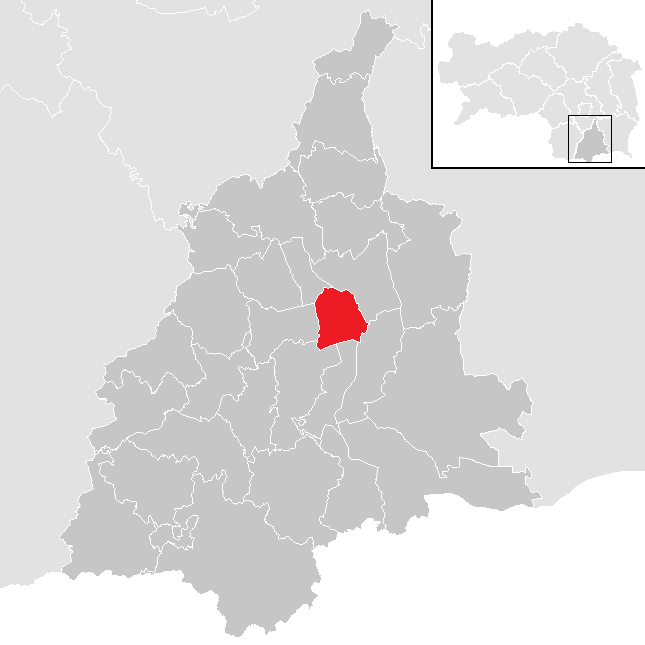 District Leibnitz